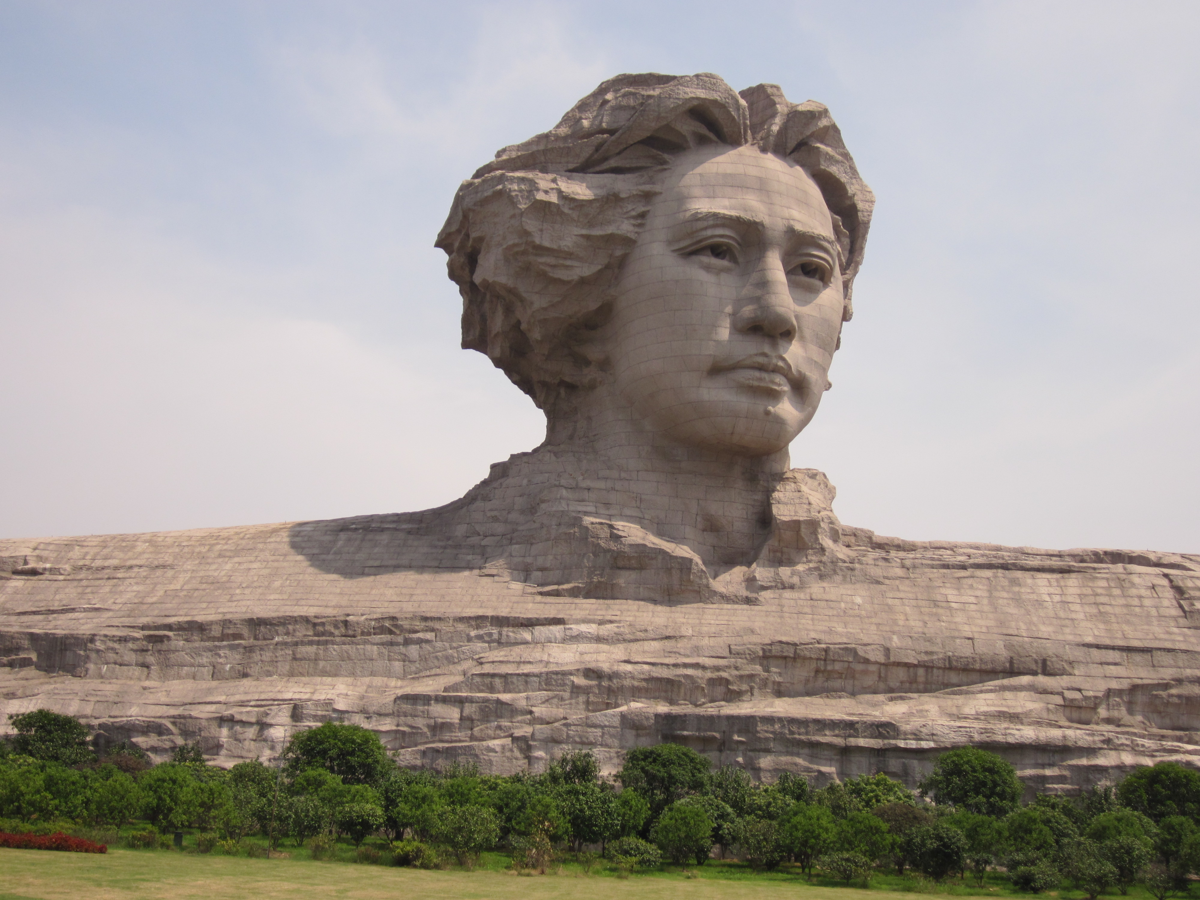 Mao Zedong youth art sculpture，in Orange continent head, Changsha